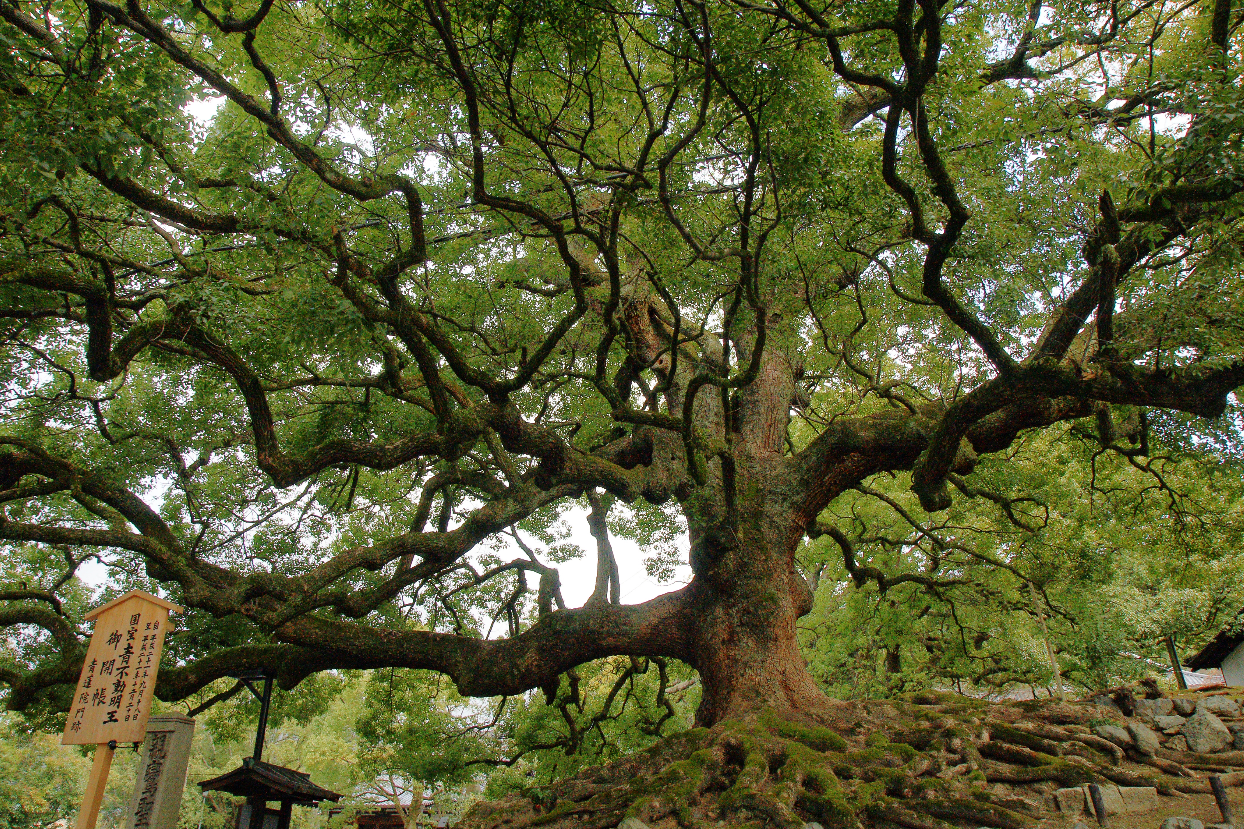 Shōren-in, Kyoto, Kyoto Prefecture, Japan